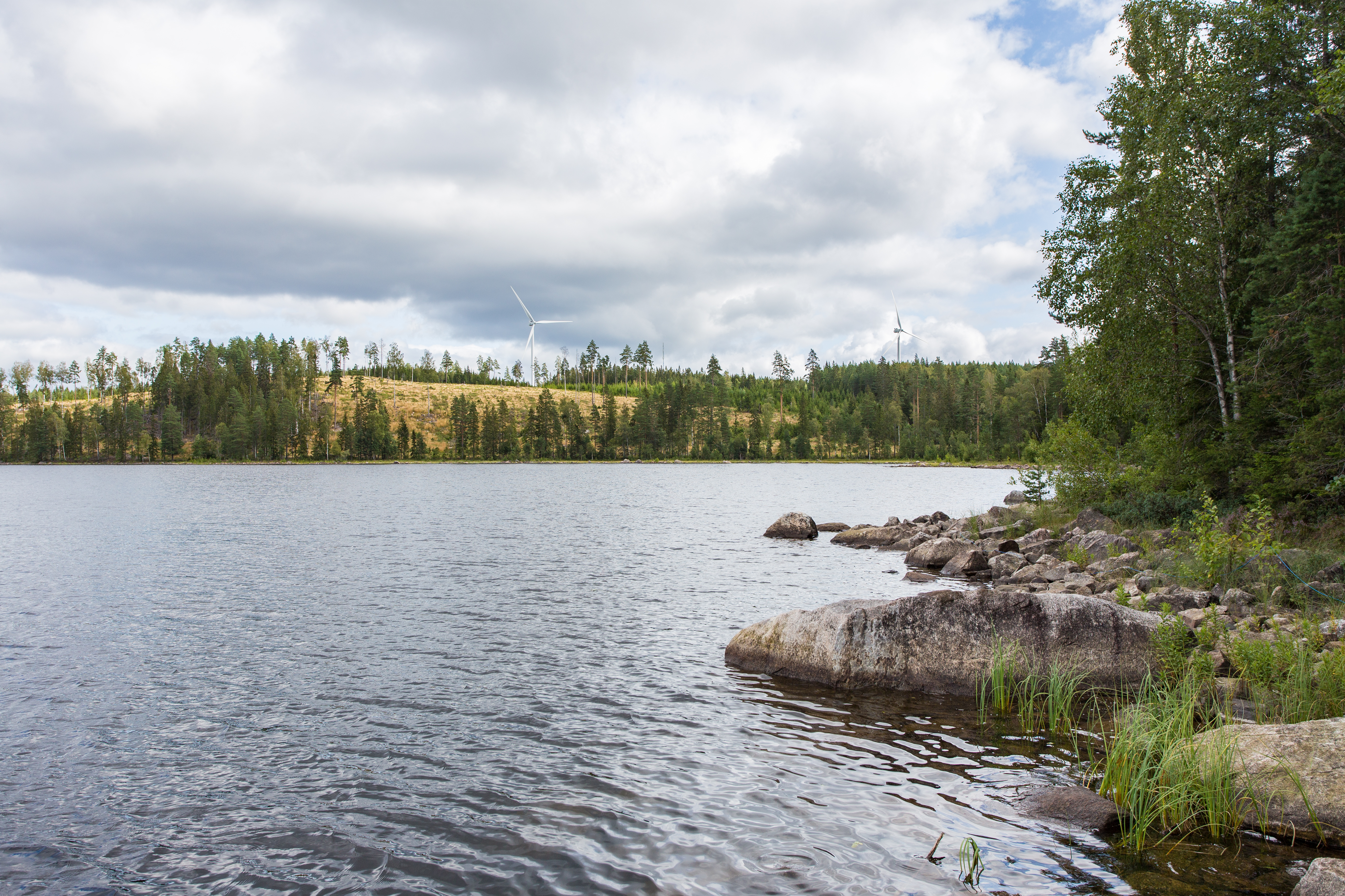 Lake Stora Gransjön, Hedemora municipality, Dalarna county, Sweden